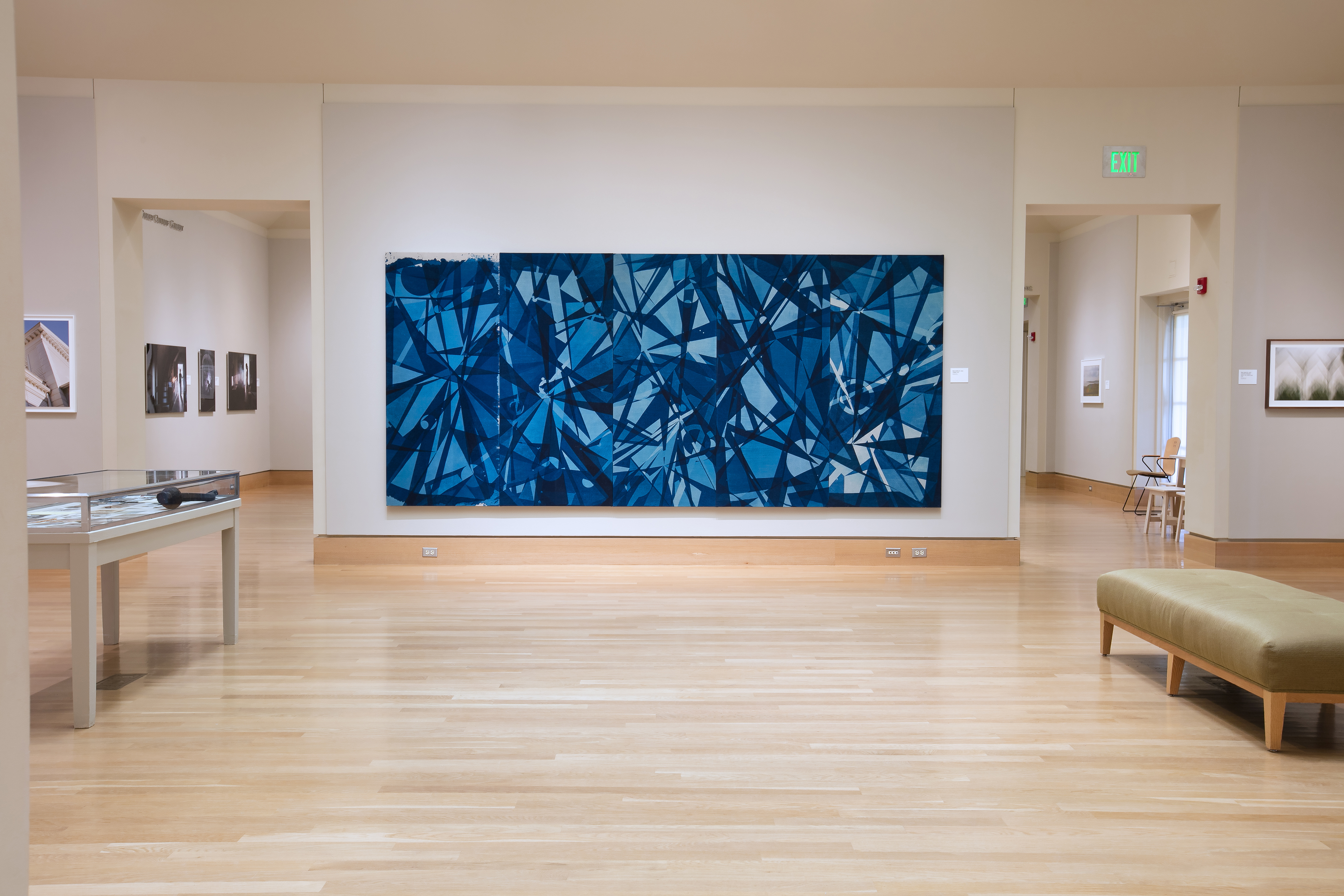 Monumental Kate Cordsen cyanotype photograph at the "In Place" exhibition at The Florence Griswold Museum, 2016